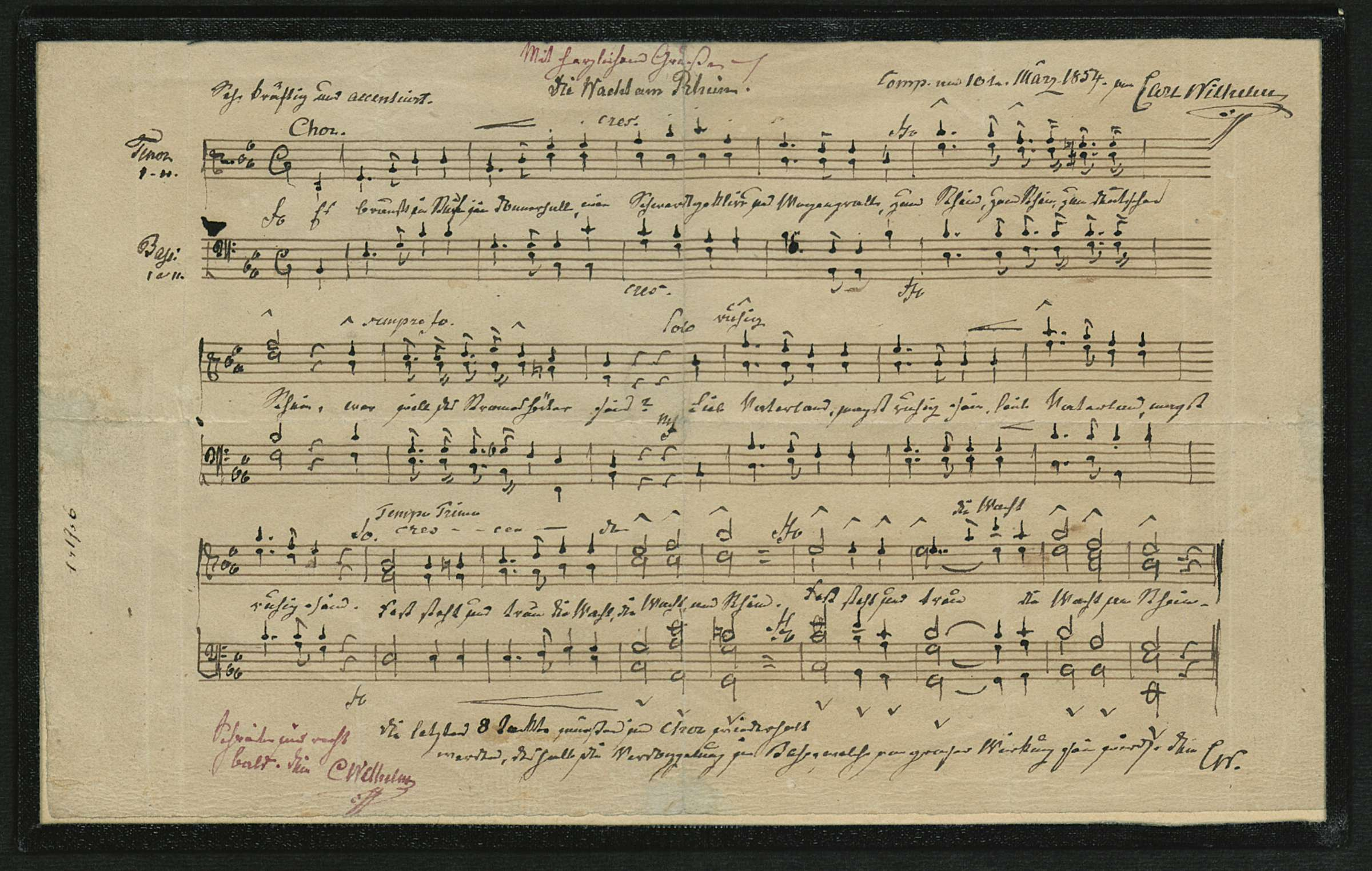 Autograph of Carl Wilhelm's "Die Wacht am Rhein"